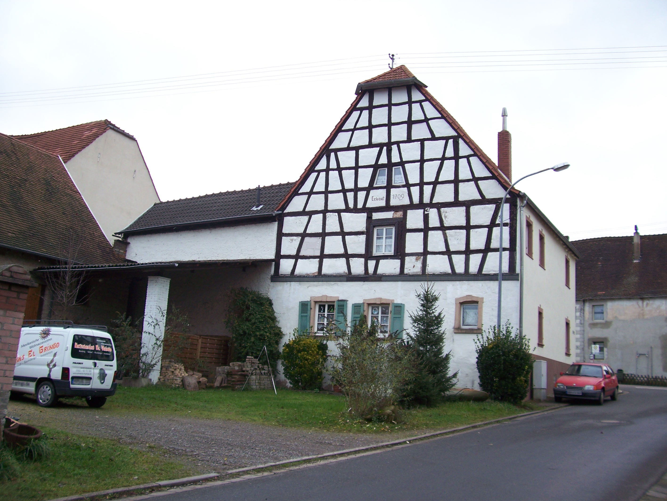 18th century farm house in the centre of Webenheim